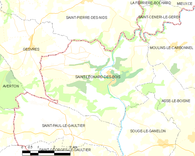 Map of French municipality